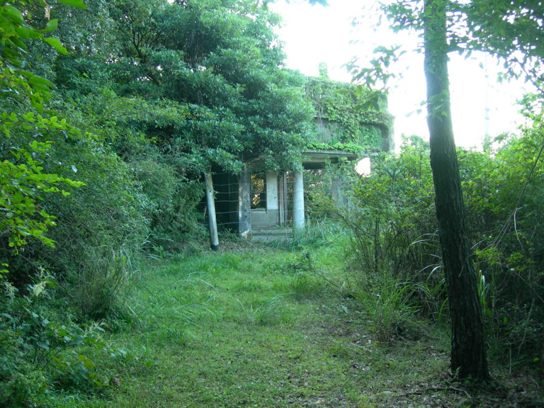 Mt. Asama at Ise city Mie Prf. Japan.